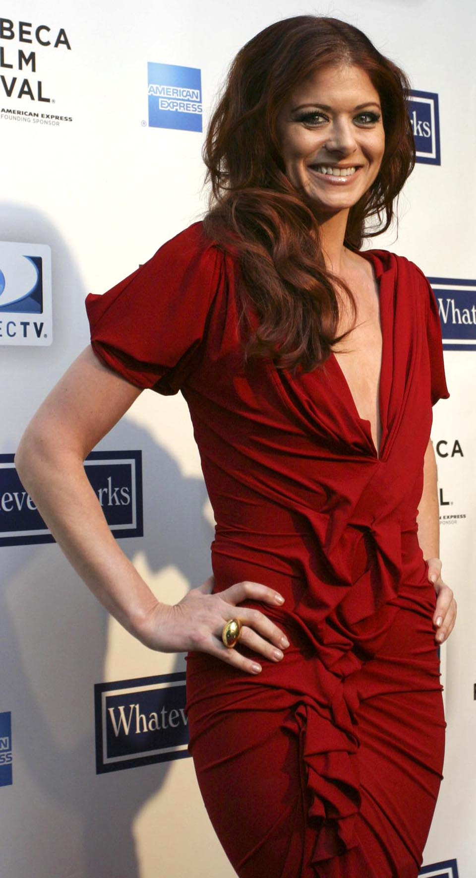 Debra Messing at the "Whatever Works" Premiere, Tribeca Film Festival 2009